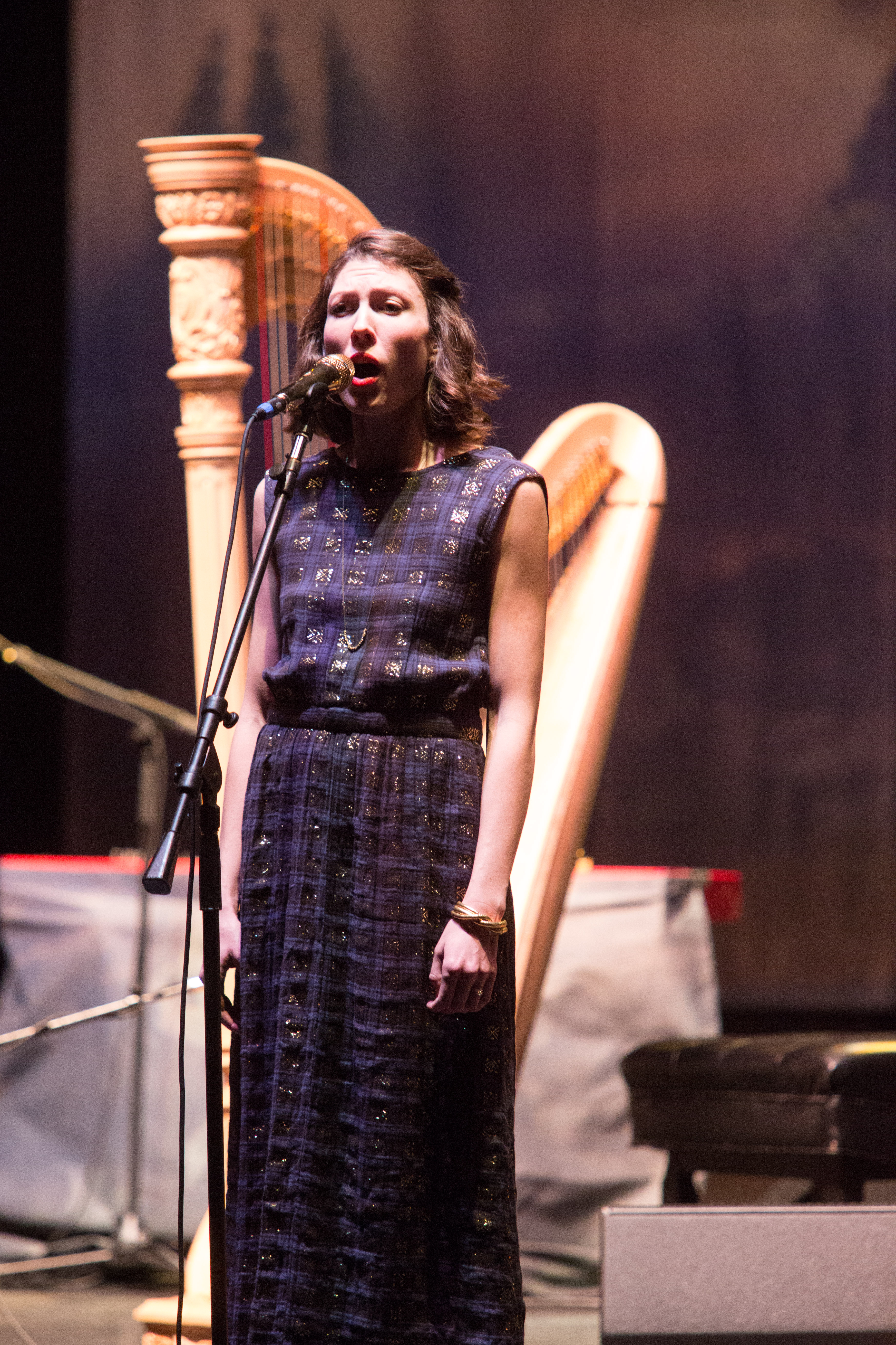 BOSTON, MA - DECEMBER 6: Alela Diane and Ryan Francesconi perform at the Orpheum Theatre. Photo by Ben Stas.